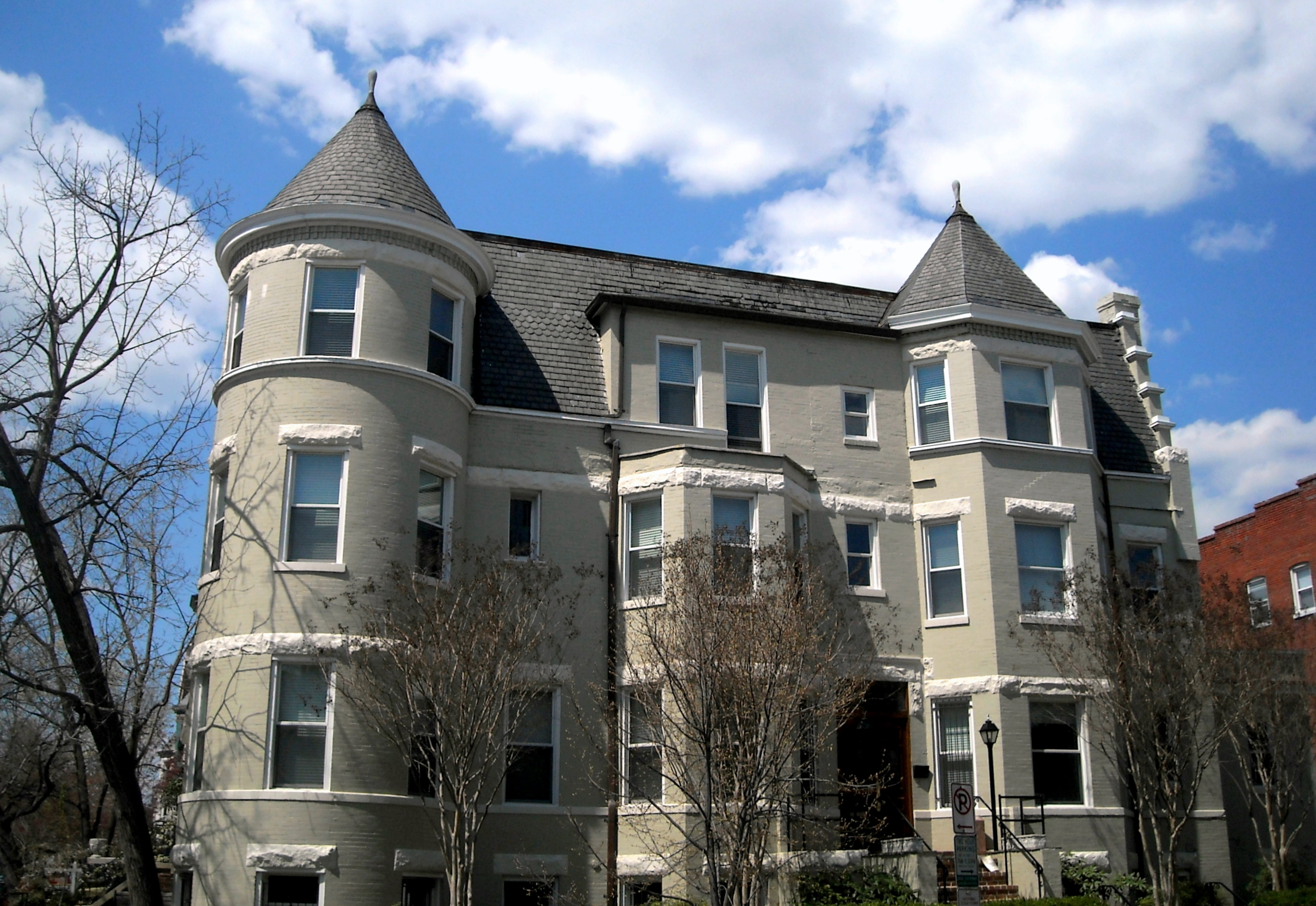 La Maison à Dupont, a corporate apartment building, located at 1800 19th Street, NW in the Dupont Circle neighborhood of Washington, D.C. The Queen Anne Style building was constructed in 1906, and is a contributing property to the Dupont Circle Historic District. Previous owners include the Qajar dynasty (office of the Persian Legation; residence of Mirza Ali Kuli Khan), Brigadier General Lyman W. V. Kennon, and Representative Edward Hart Fenn.